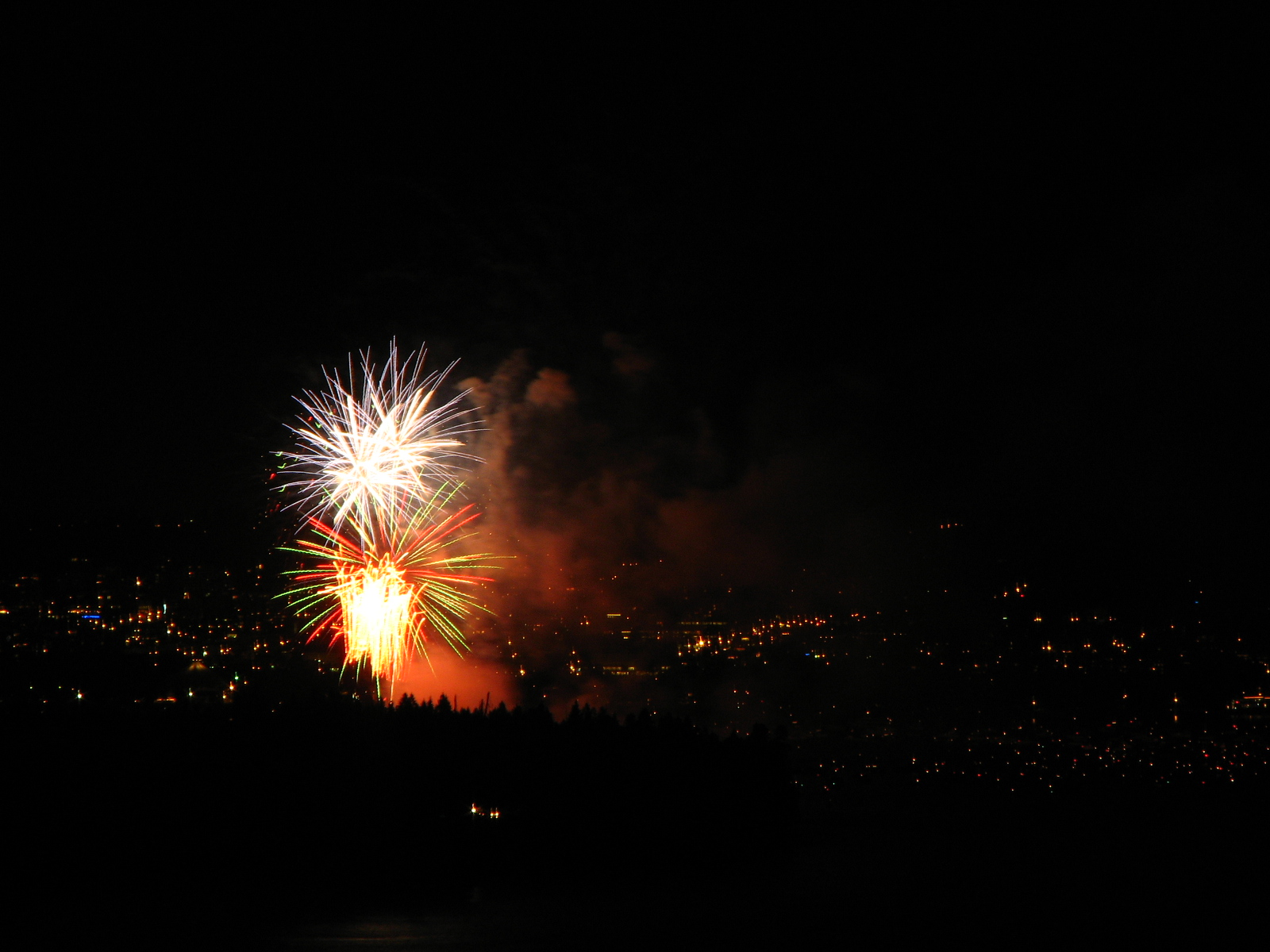 China's 2006 Show @ the HSBC Celebration of Light Vancouver